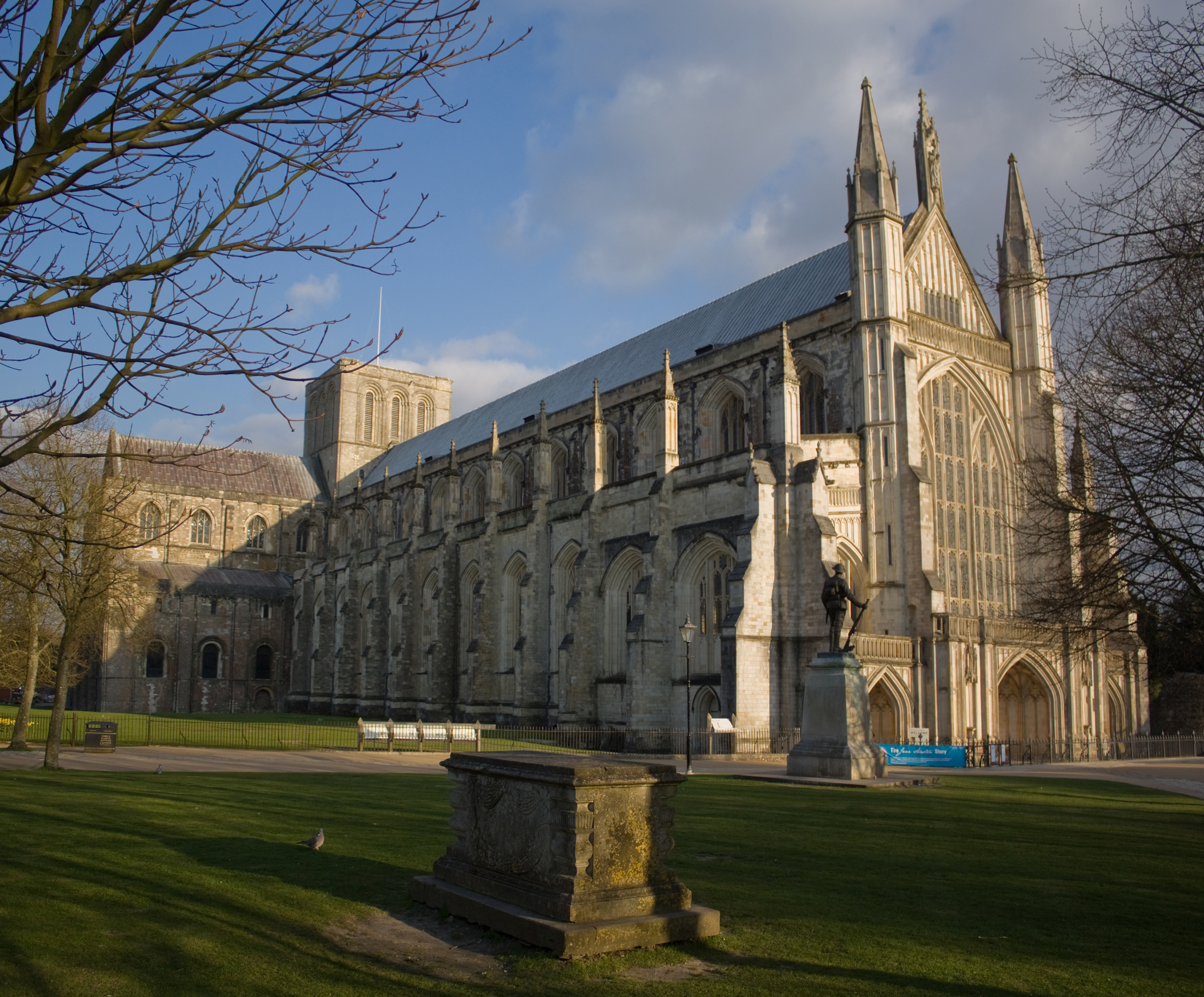 Cathedral Church of the Holy Trinity